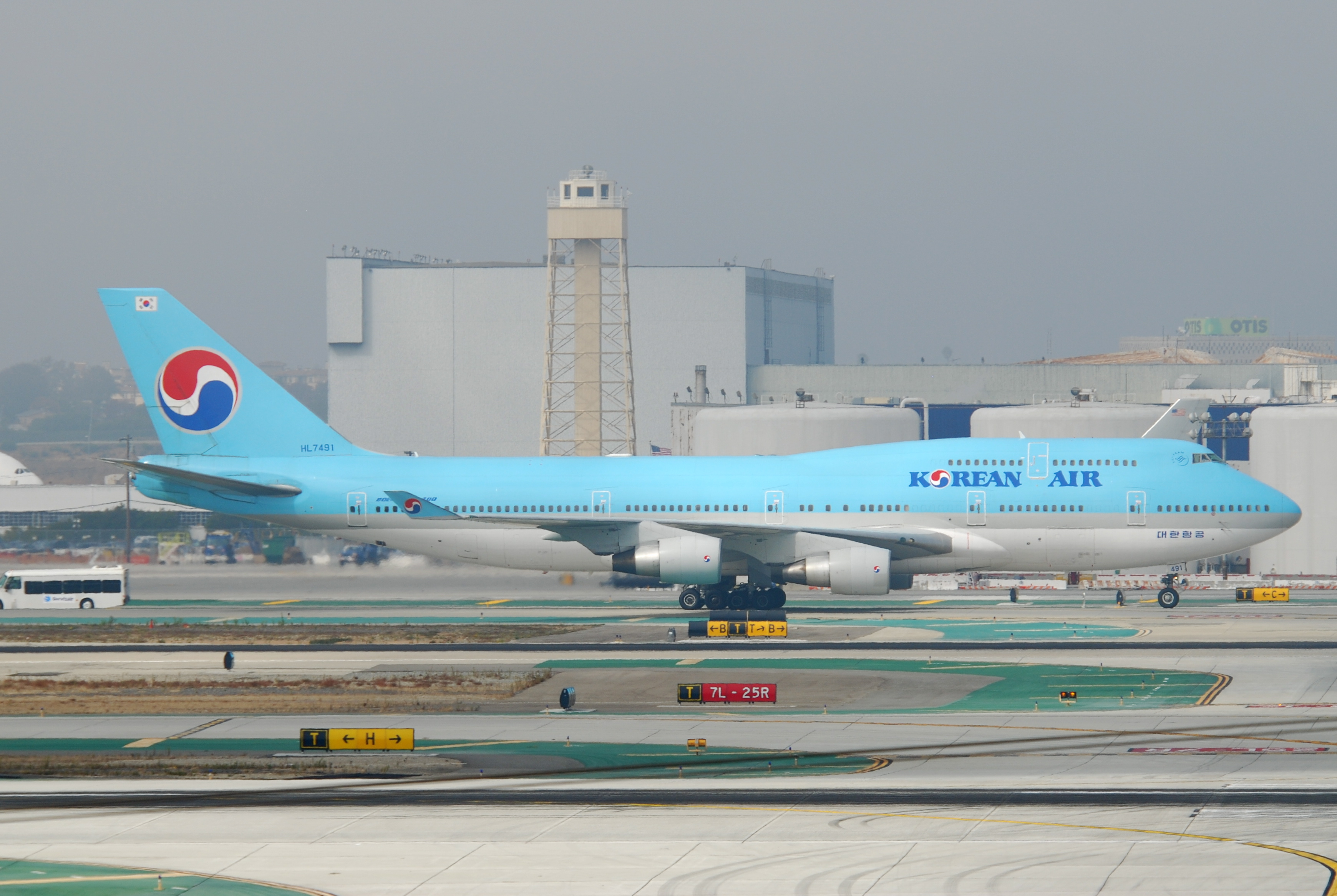 Korean Air Boeing 747-400; HL7491@LAX;10.10.2011/622qo